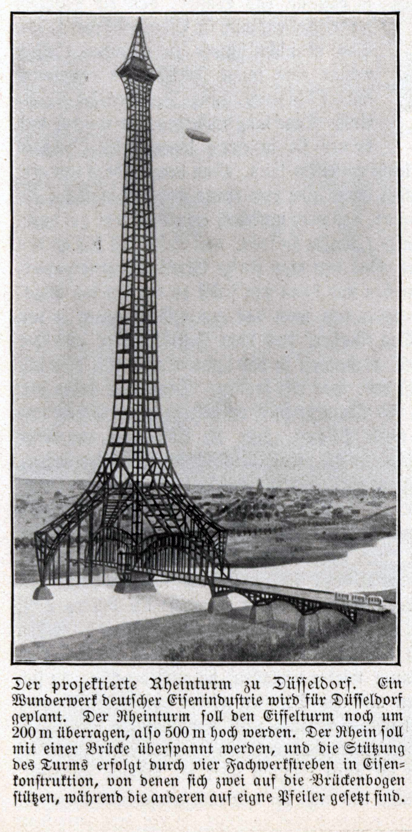 Project of a tower on the bords of the Rine at Dusseldorf (Germany) thought to surpass the Eiffel Tower at Paris (1912/1913). Picture from Wissen und Leben Issue 39, Vol. 29, 1913, p. 75 (Supplement to Reclams Universum: Moderne illustrierte Wochenschrift Vol. 29.2 (1913)).